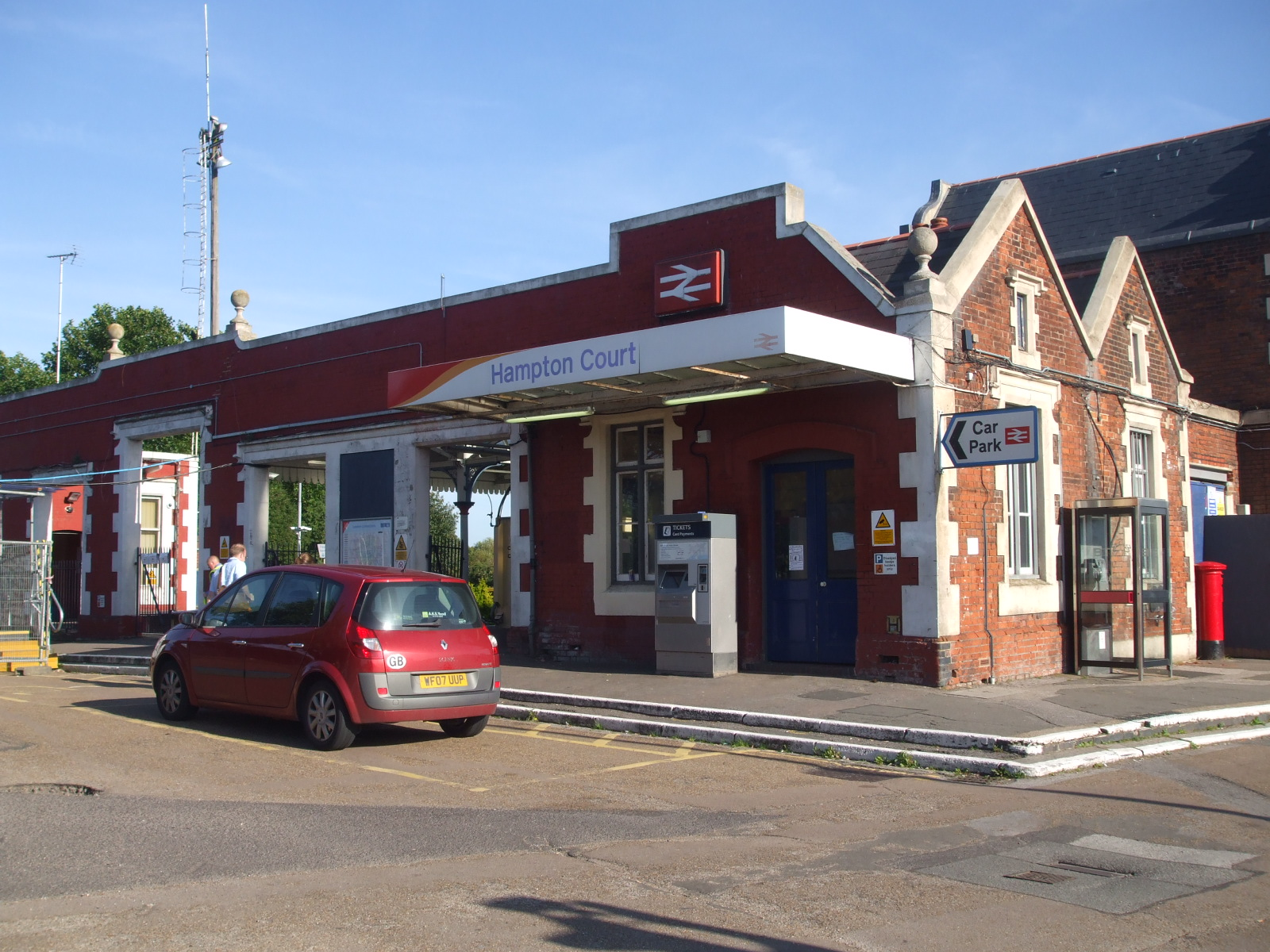 Hampton Court station building